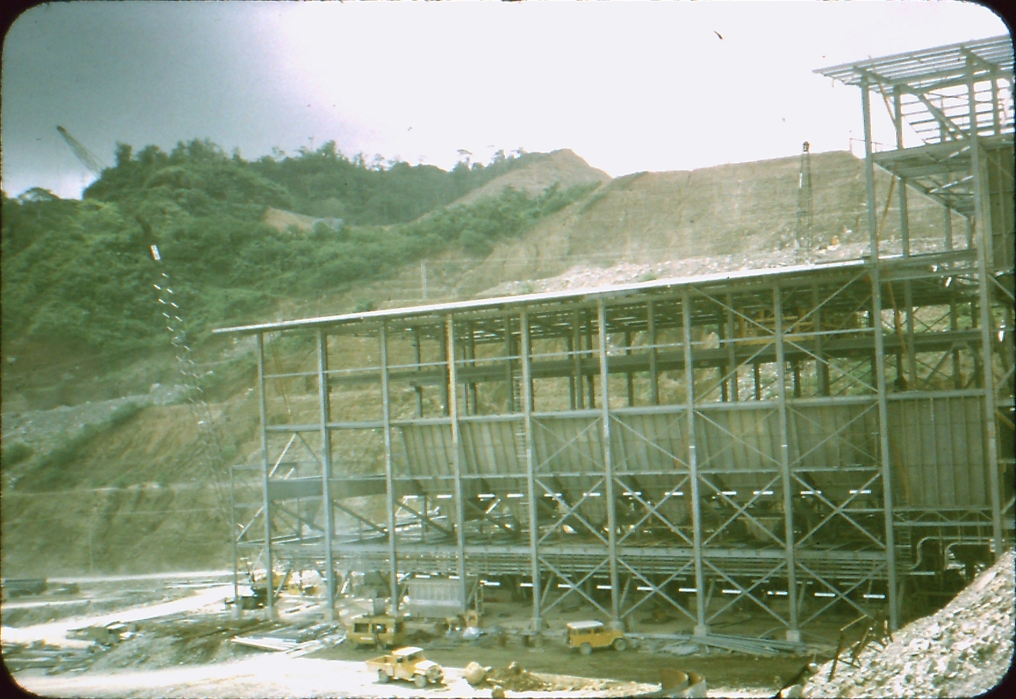 Ore mill Panguna, Boungainville mine under construction. c. 1971